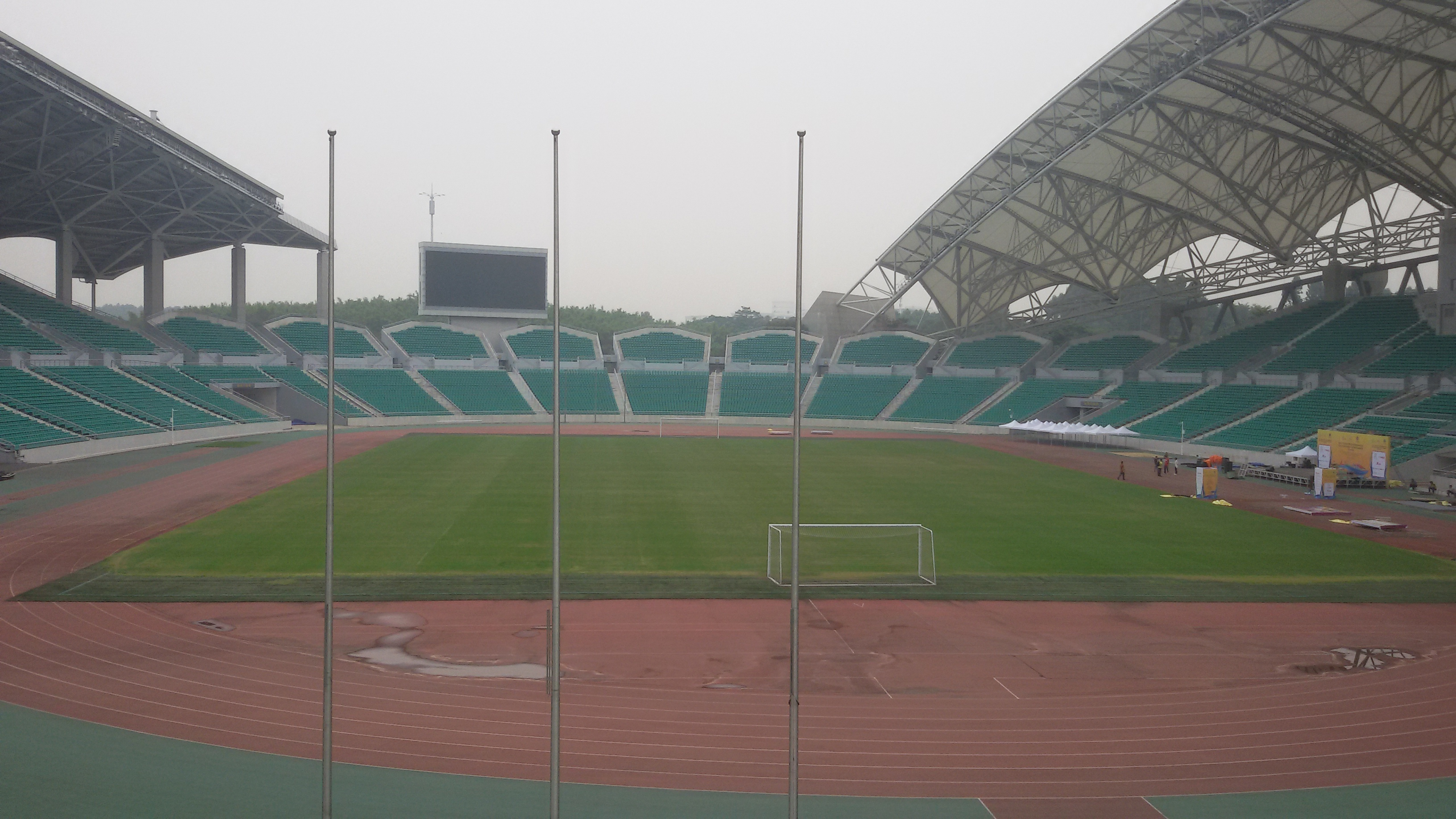 Canton HEMC Central Area Stadium